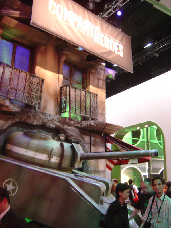 A booth which promotes Company of Heroes, a video game showcased at the Electronic Entertainment Expo in 2005.